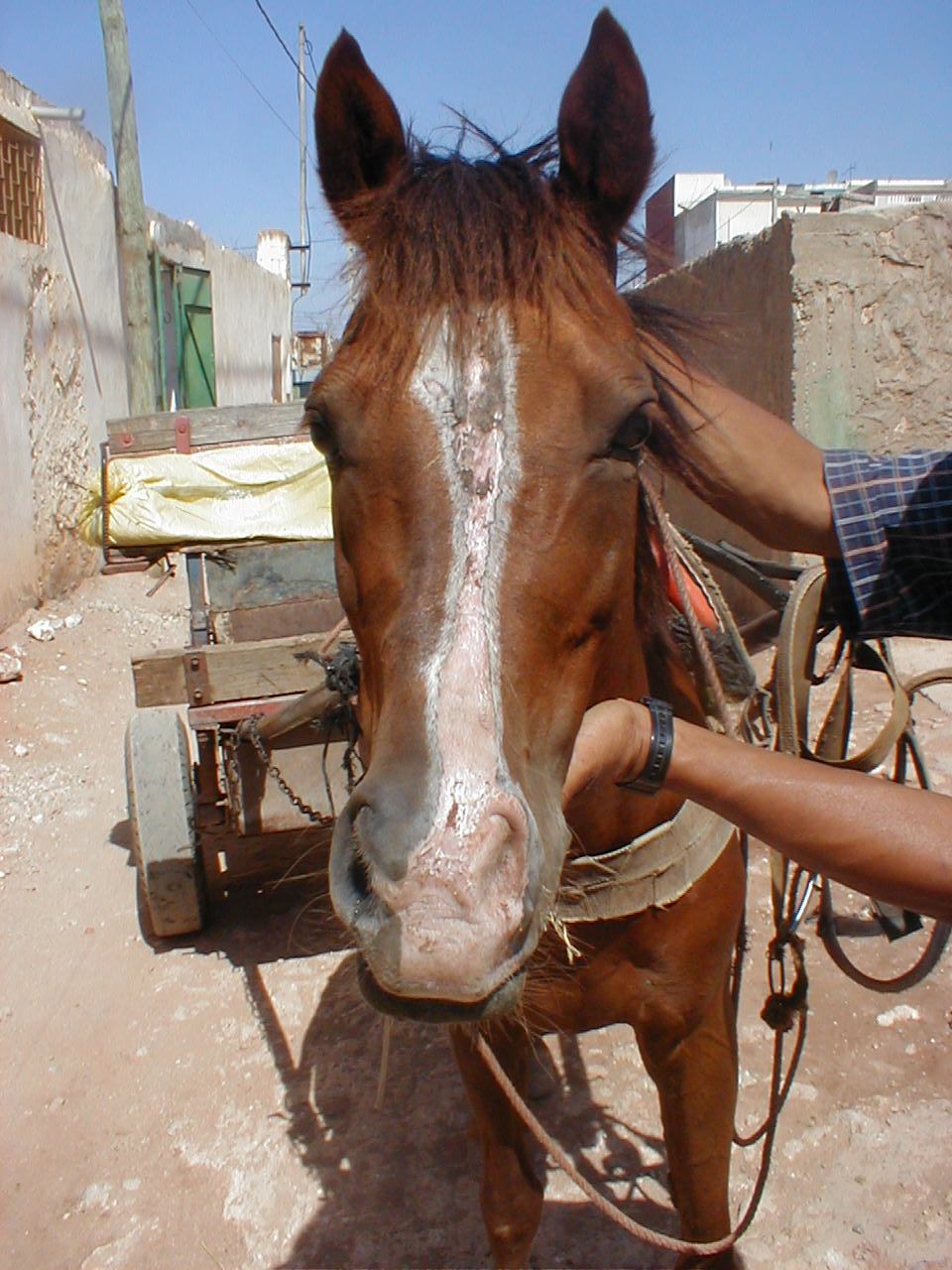 horse which probably suffered from habronema, treated with ivermectin some 15 days before, recovering